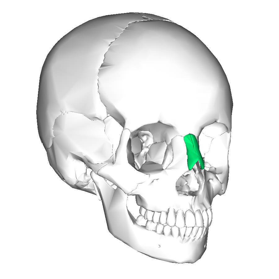 Nasal bone (shown in green).